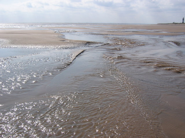 Spurn Head, East Riding of Yorkshire, England.At TA41261197. Looking SW from the sands as the tide goes out. The sea takes up just about all of this grid square. Spurn Lighthouse can just be seen in the adjacent square.